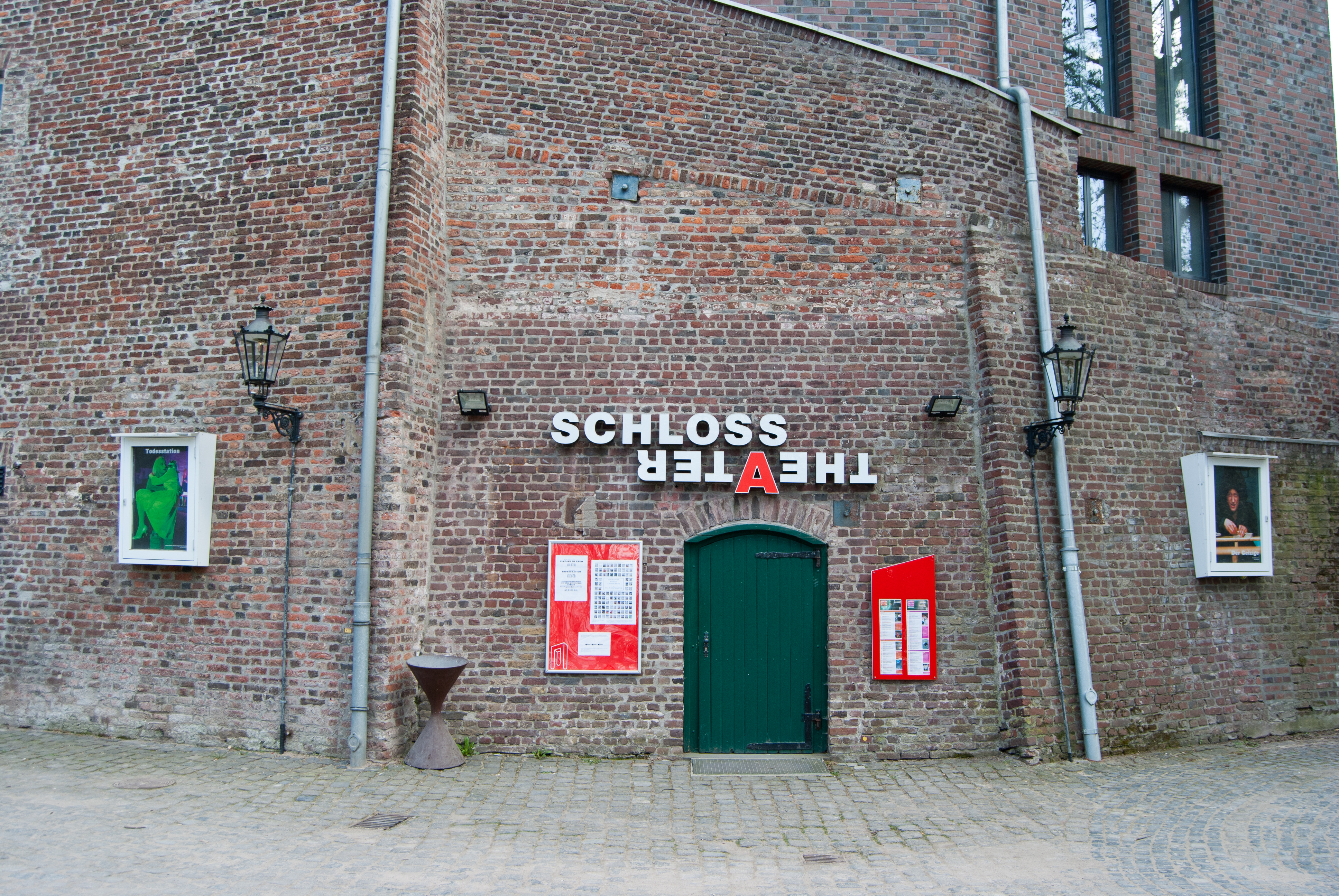 Moers (North Rhine-Westphalia, Germany) – Moers Castle – theatre entrance This image shows a heritage building in Germany, located in the North Rhine-Westphalian city Moers (no. 1). This photograph was taken with a Nikon D3000